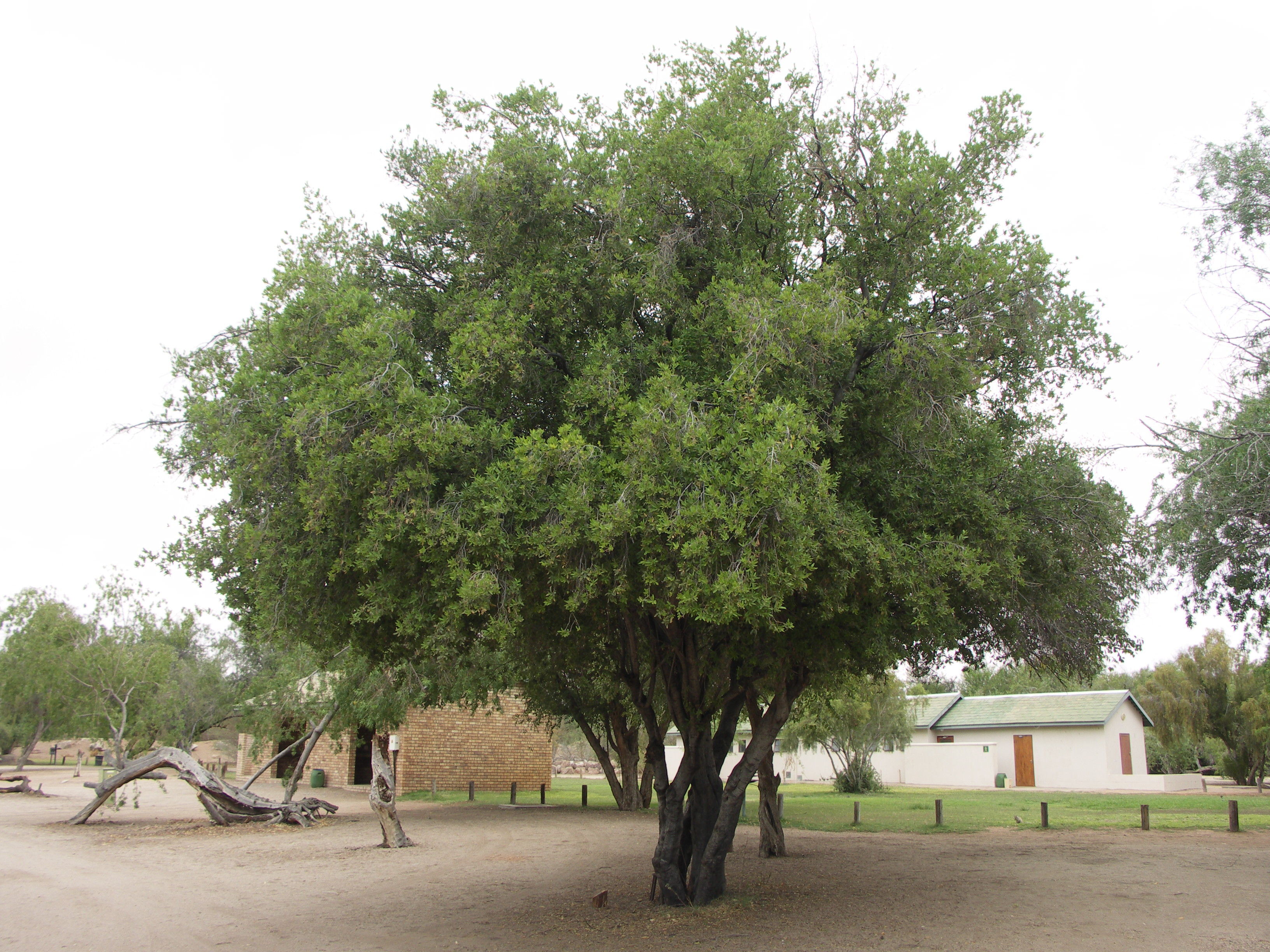 Jacket-plum (Pappea capensis) at the campsite in the Augrabies Falls National Park, South Africa